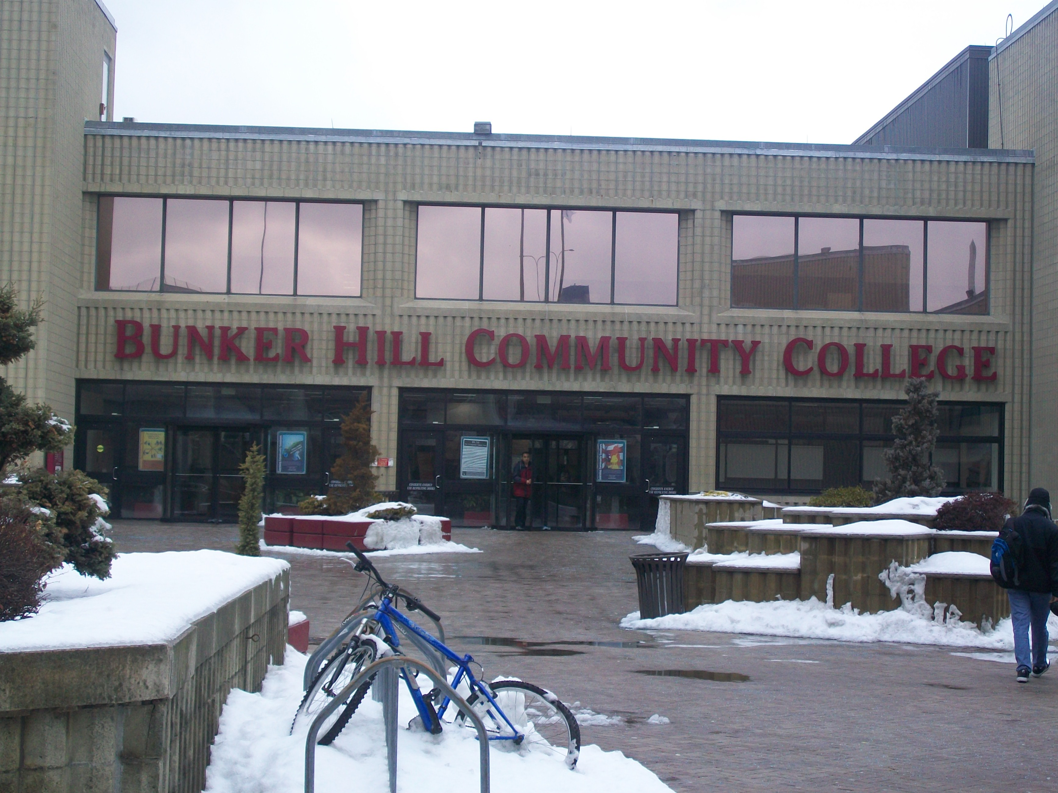 The main Entrance to Bunker Hill Community College (building B)